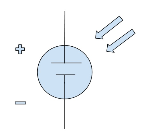 Schematic symbol for Solar Panel